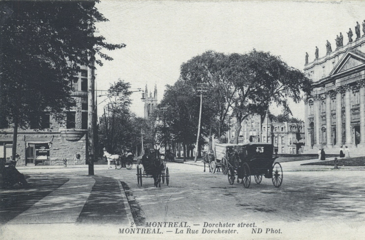 Print (photomechanical) of Dorchester Street, Montreal, Quebec, Canada, 1907. Ink on paper mounted on card - Collotype. (Althoug the McCord notice writes vaguely "about 1911", it is actually known that the Neurdein voyage in Canada was in 1907 and the photos in this Neurdein series were taken in 1907 and were published in 1908.)